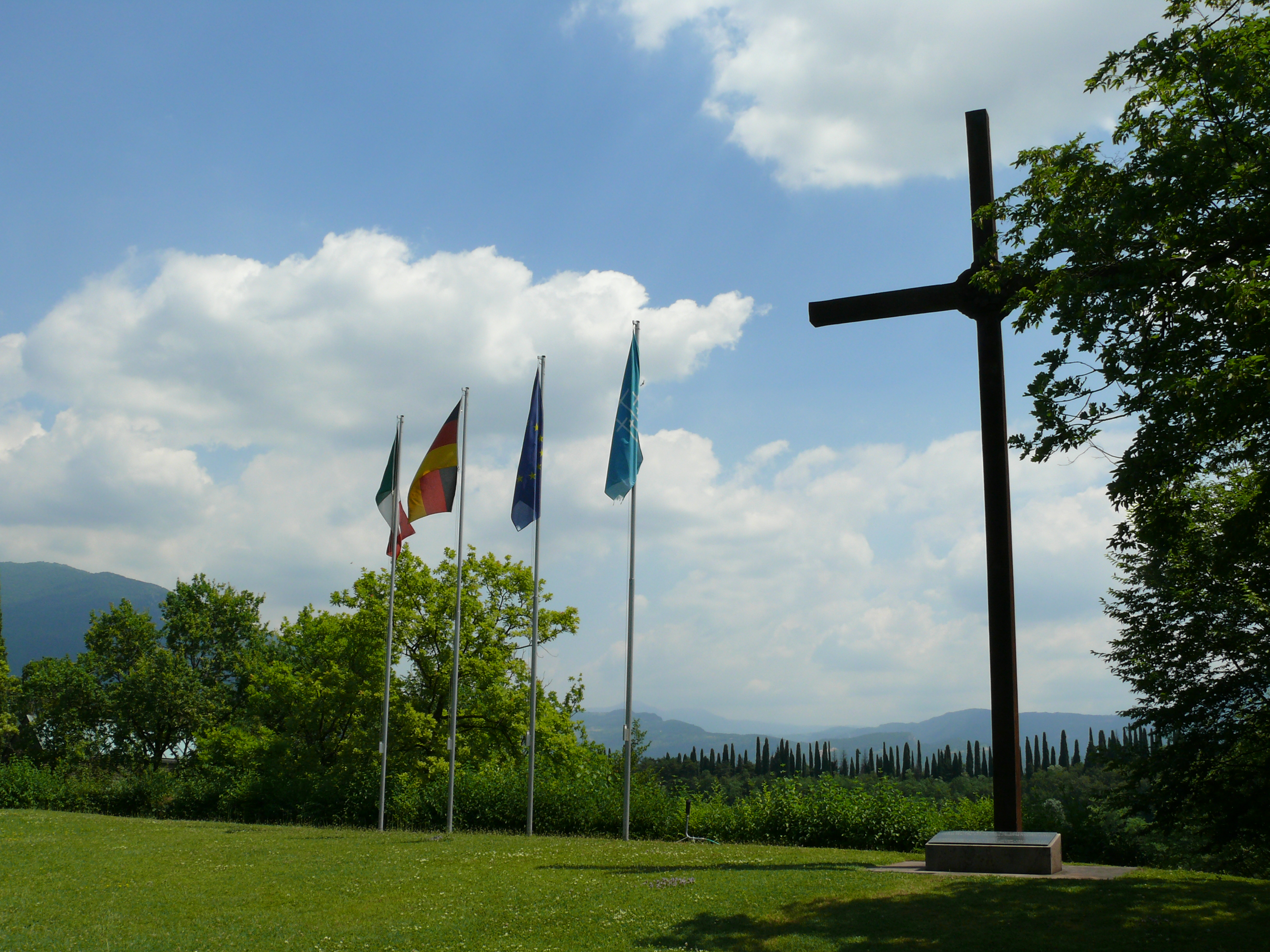 German War Cemetery Costermano (Italy). High cross by Manfred Bergmeister.